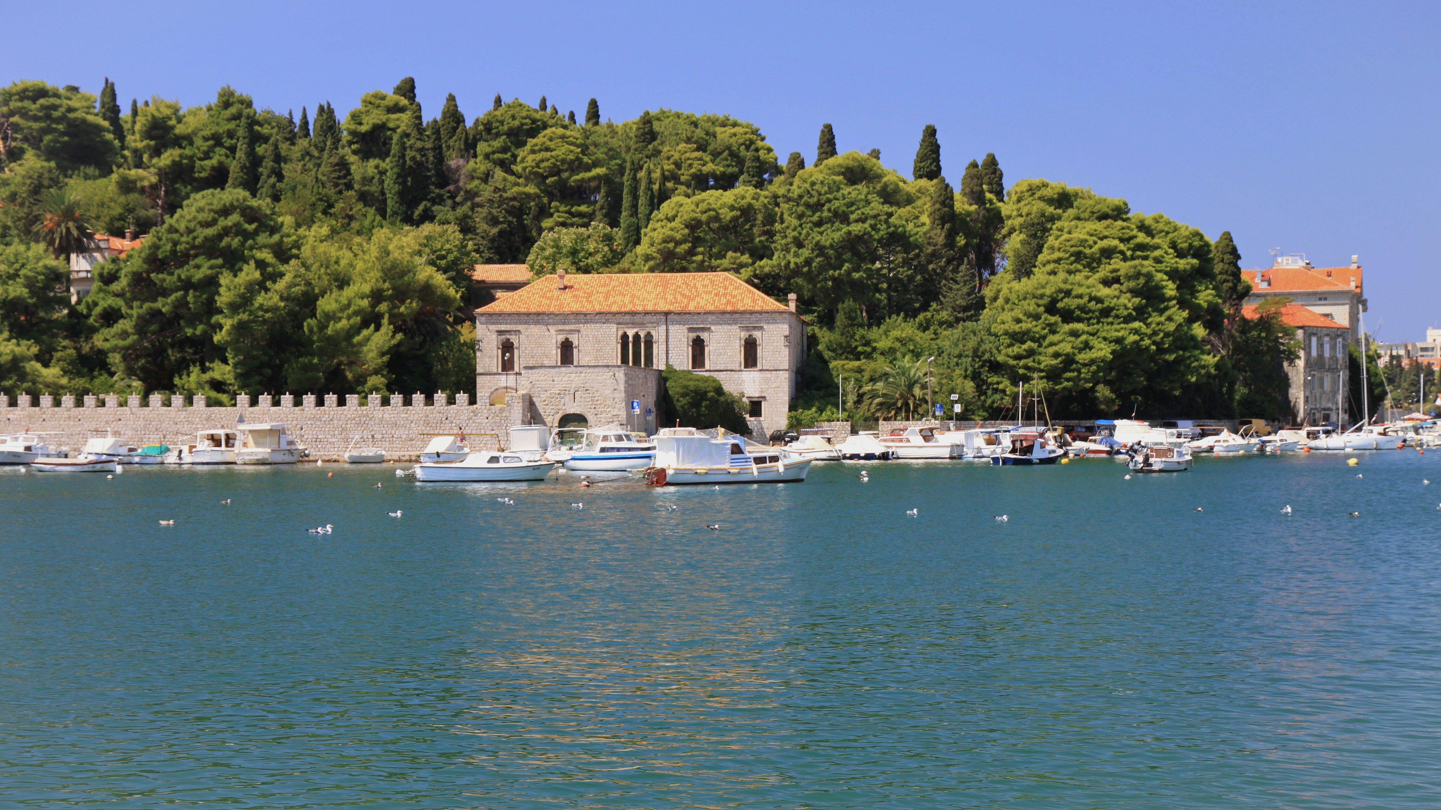 Gothic-Renaissance mansion of Petr Sorkočević in Lapad district. Dubrovnik, Dubrovnik-Neretva County, Croatia.